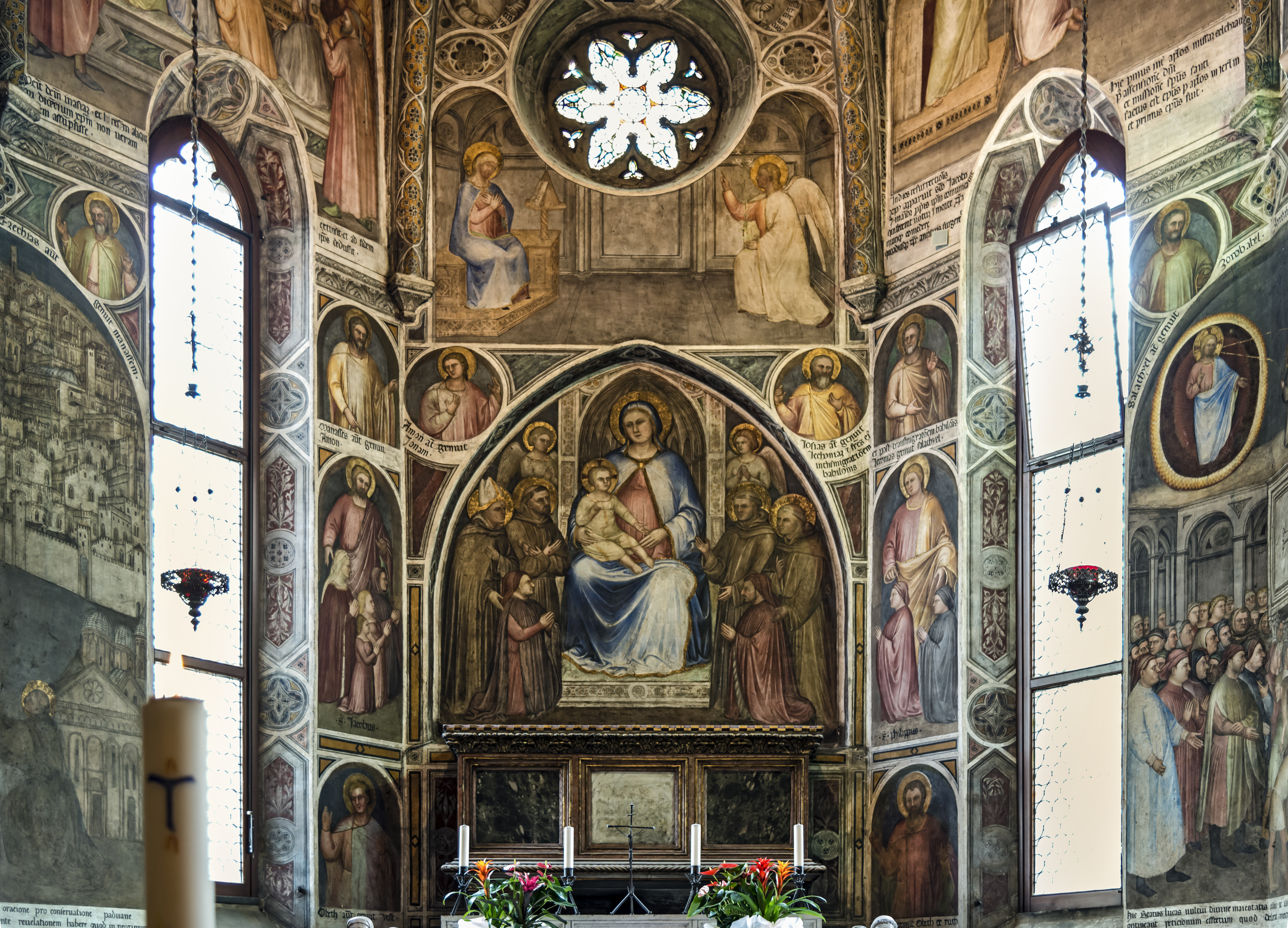 Basilica of Saint Anthony of Padua - Chapel of Blessed Luca Belludi by Giusto de' Menabuoi 1382.